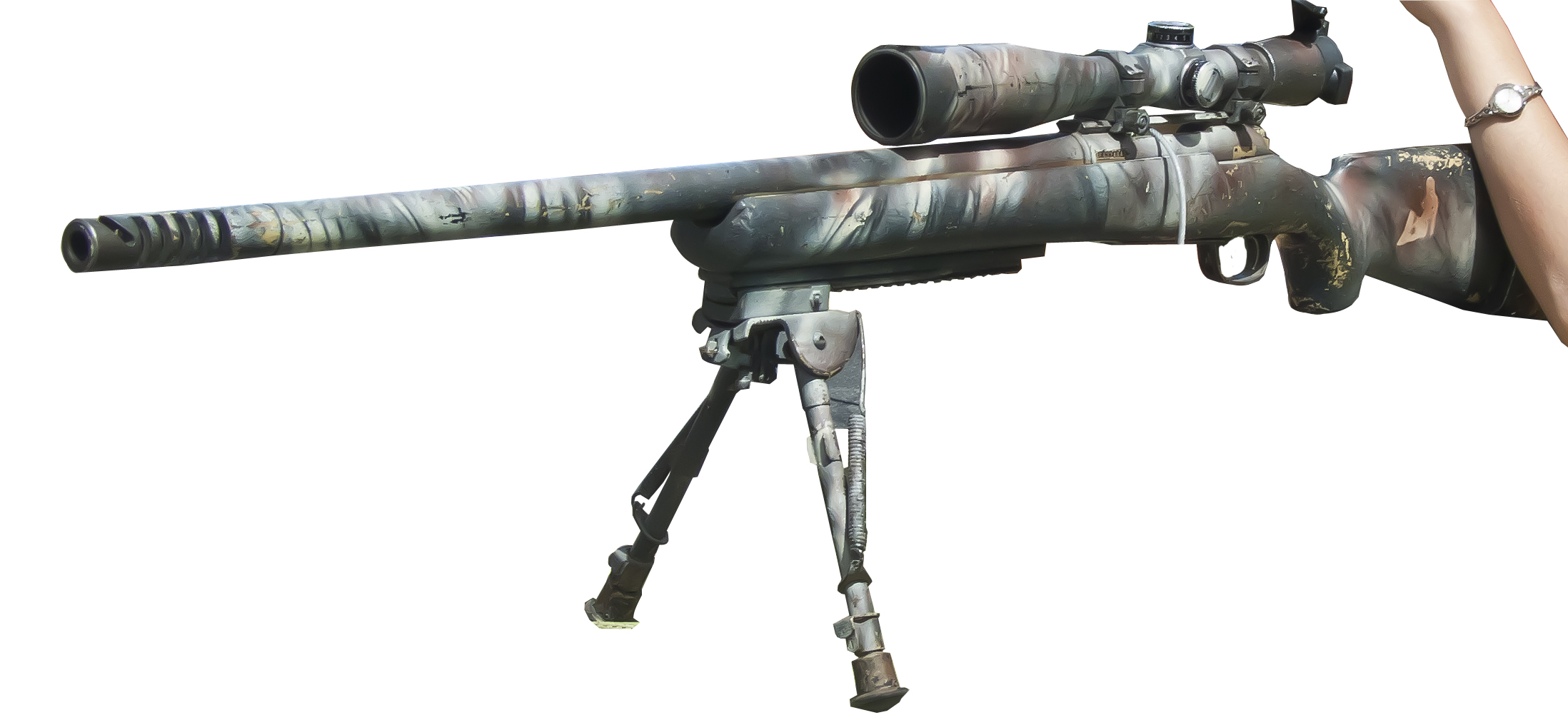 IDF M24 SWS